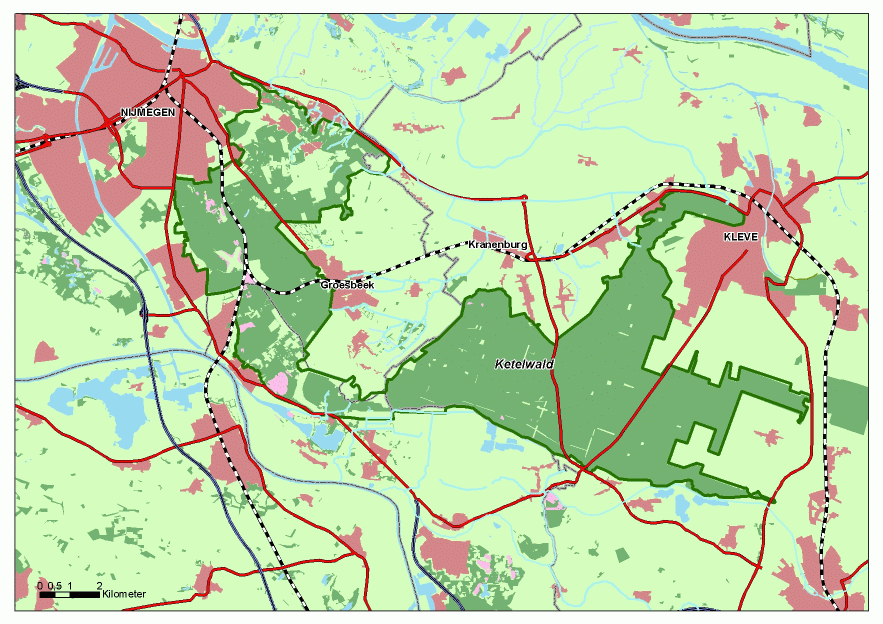 Location of the Ketelwald